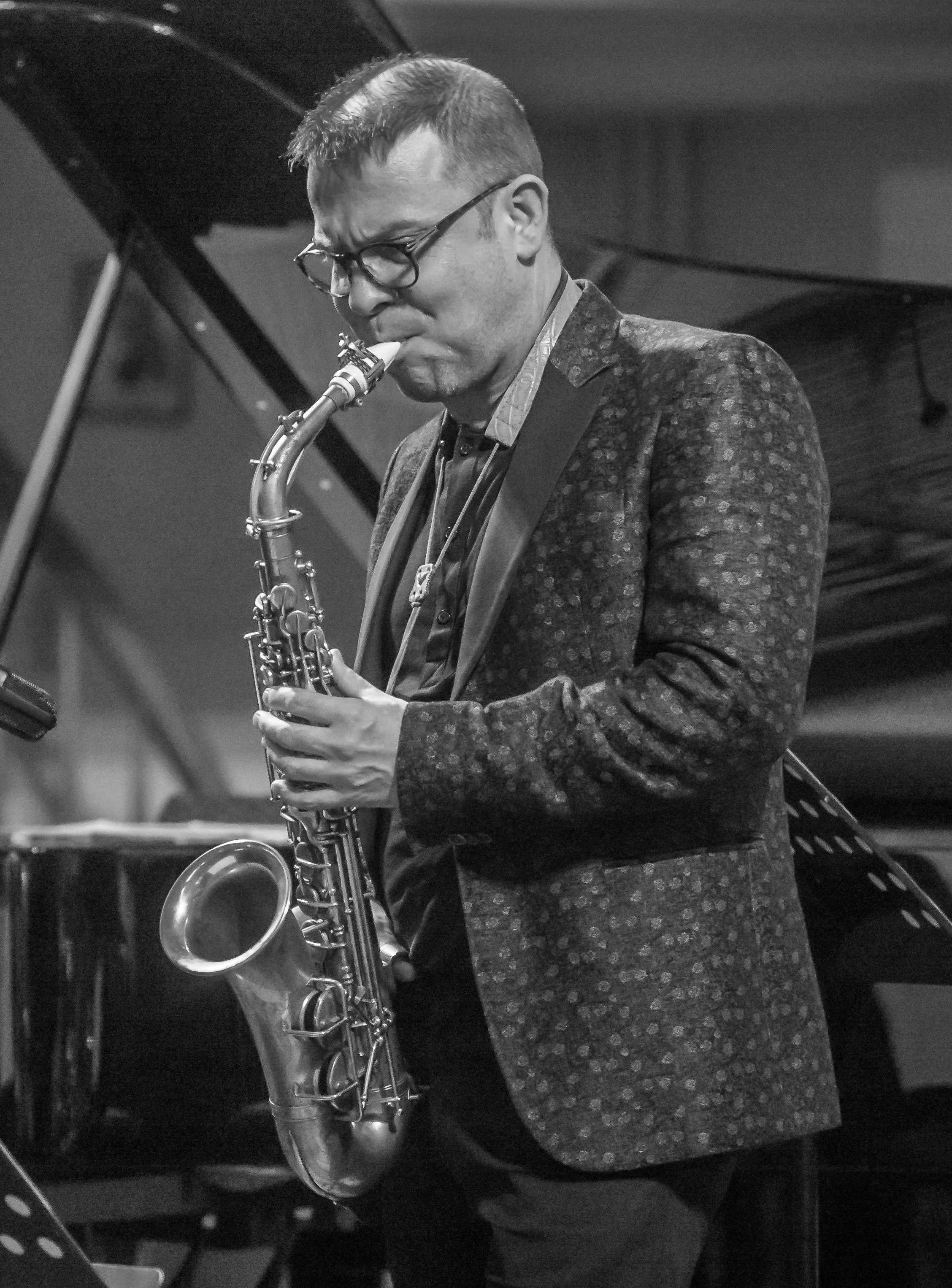 Jukka Perko / alto sax und Jan Lundgren / piano